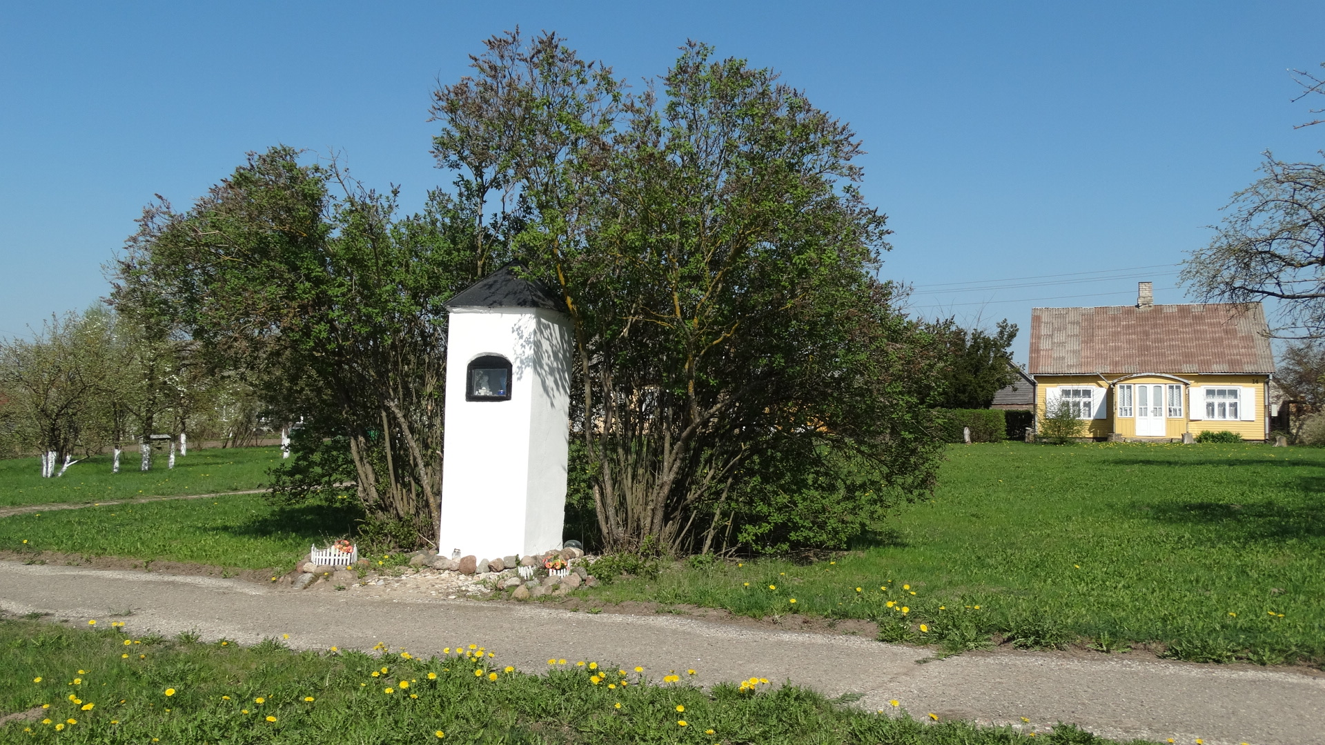 Skėmiai, Radviliškis District, Lithuania